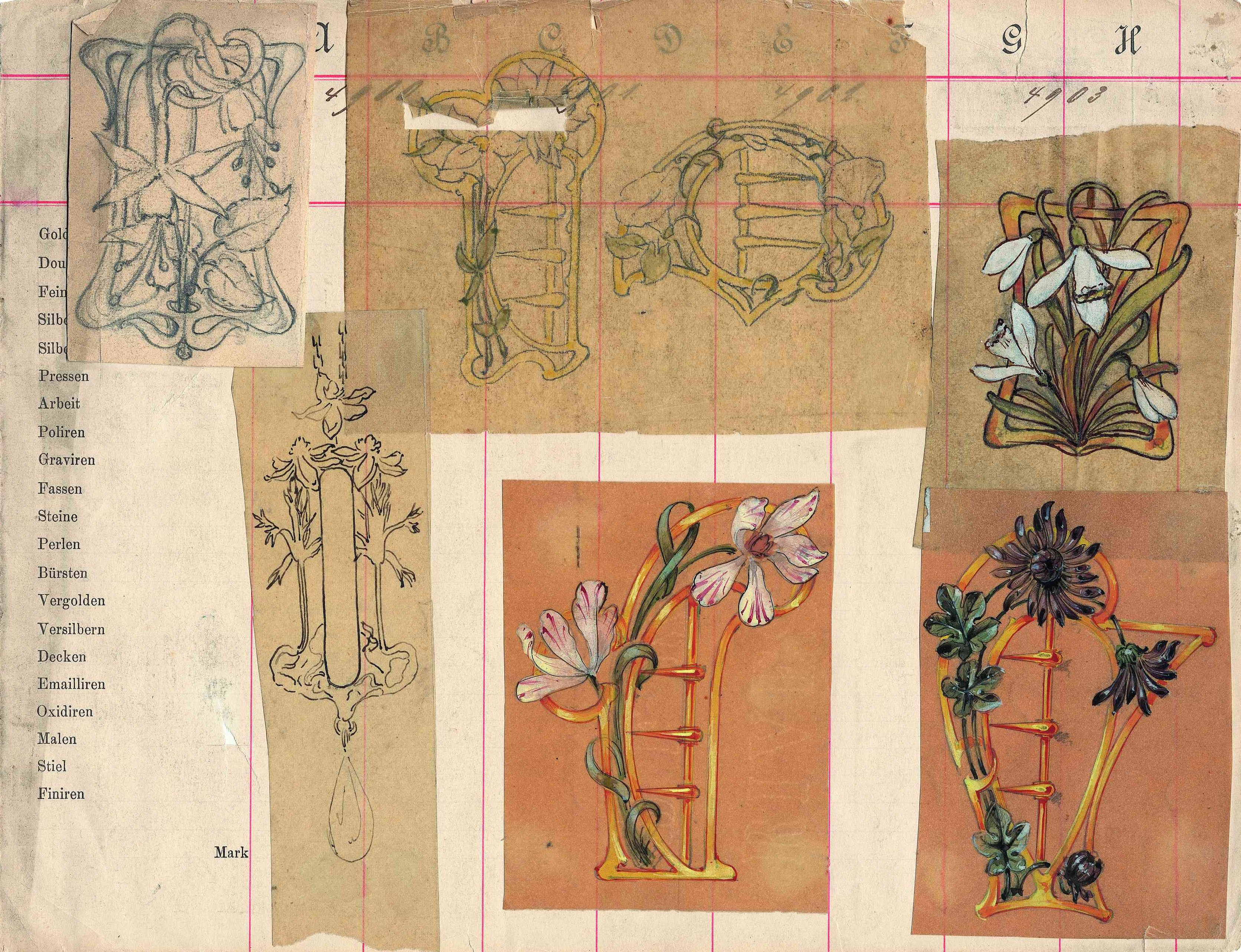 Designs of Art nouveau jewellery drawn about 1903 by Victor Mayer, founder of the Victor Mayer GmbH & Co KG, Pforzheim/Germany